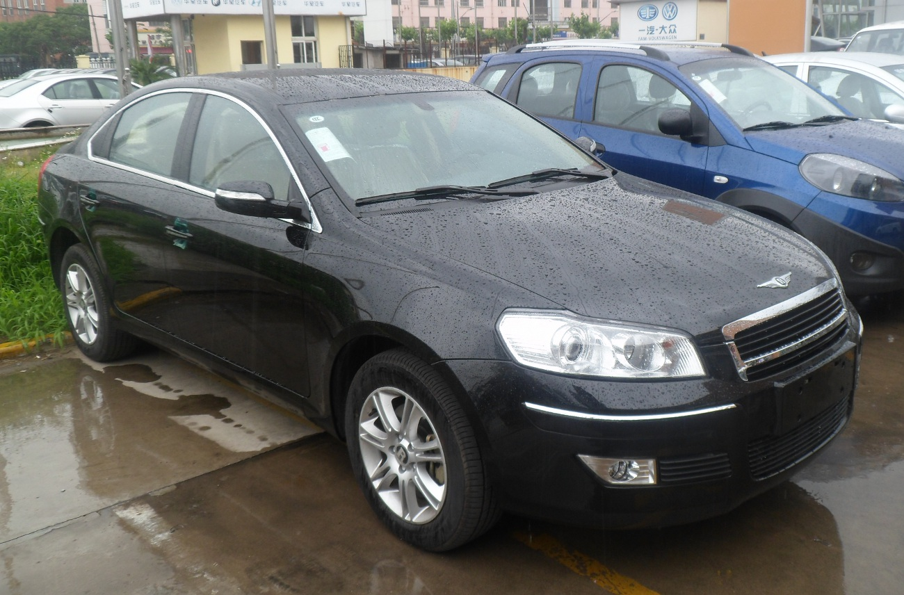 Riich G5 photographed in Shanghai, China.